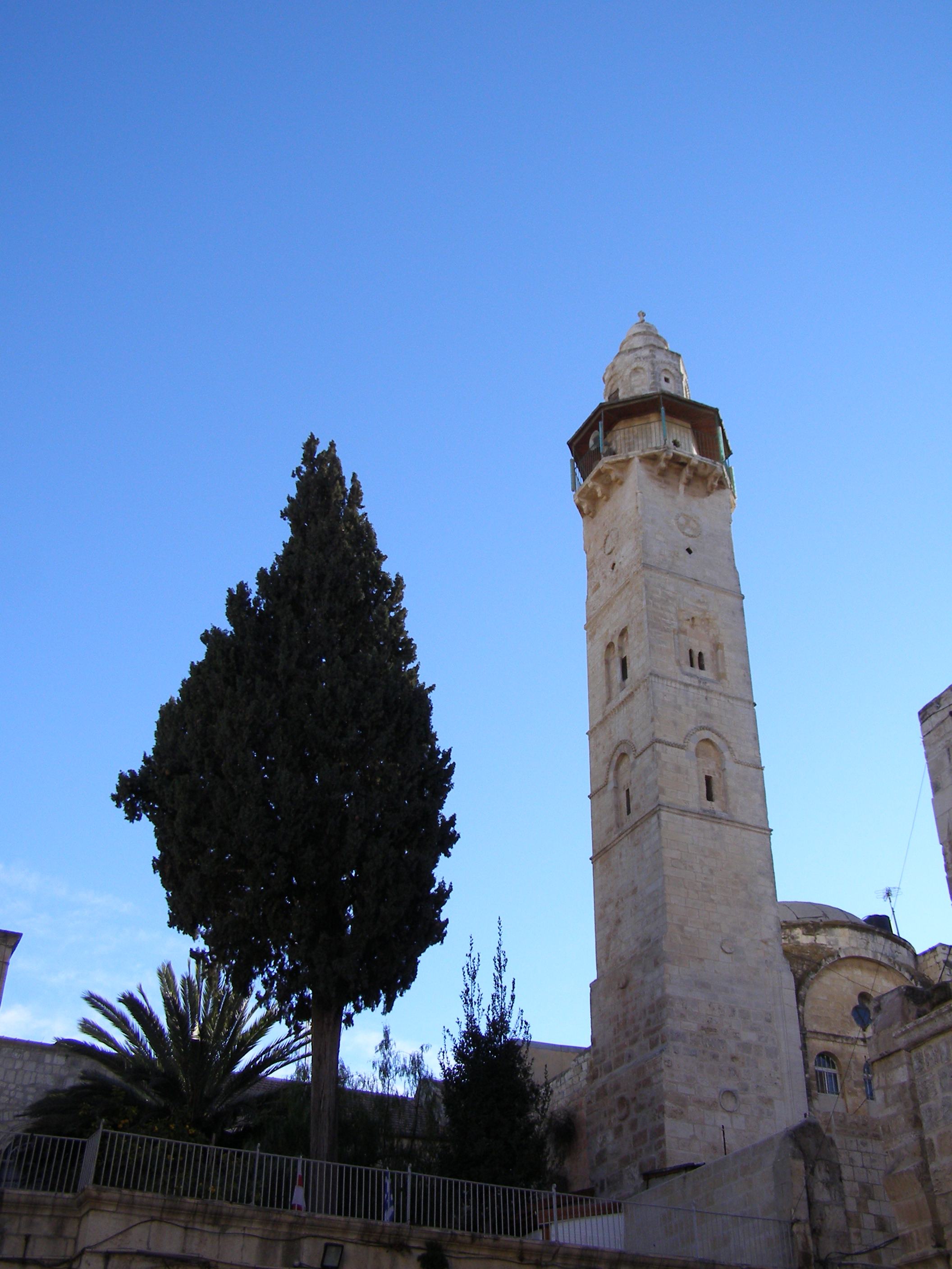 Minaret of Mosque of Omar in Jerusalem